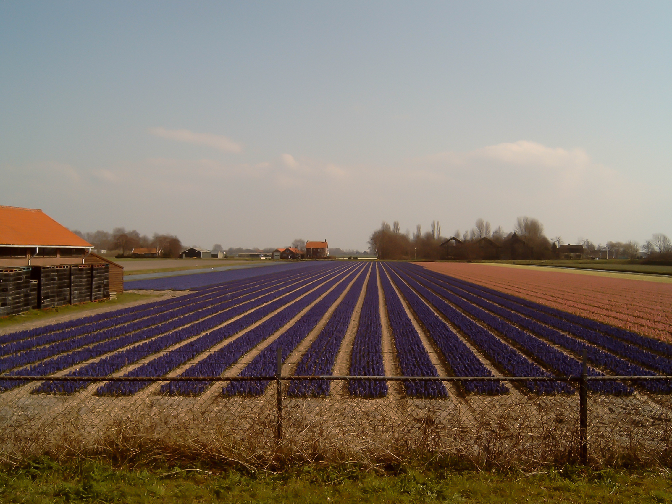 Hillegom, Zuid Holland, field with hyacinths